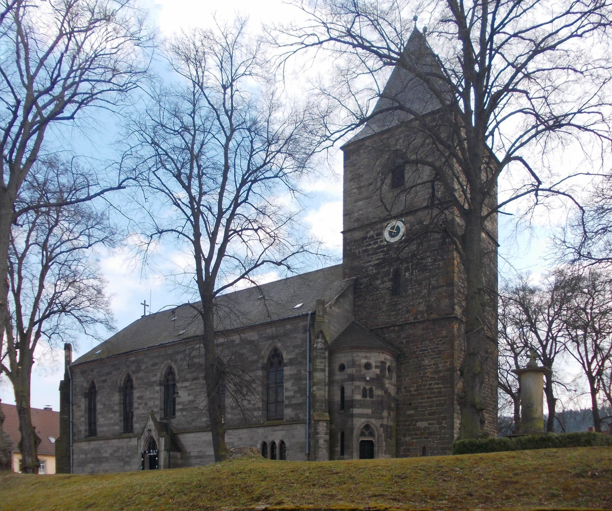 Mary Magdalene Church in Bad Bibra (district: Burgenlandkreis, Saxony-Anhalt)